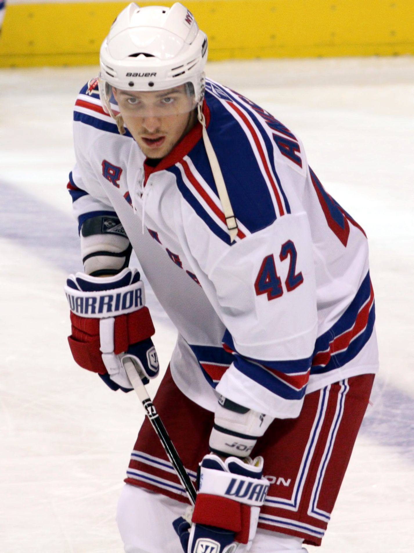 Artem Anisimov skates in pre-game warm-up (Dallas Stars vs. New York Rangers, 2011-01-07)